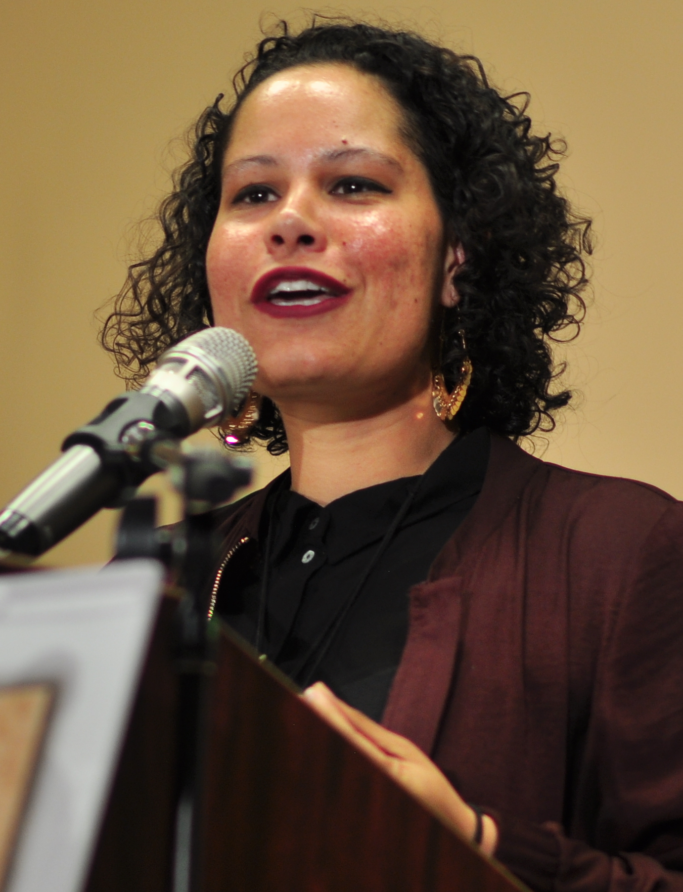 Nikkita Oliver speaking at the book launch for Summary Execution by Michael Withey, Seattle Labor Temple, March 20, 2018. The book is about the 1981 murder of labor activists Silme Domingo and Gene Viernes.